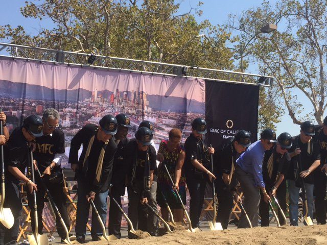 This morning I participated in the groundbreaking of the new home for .@LAFC, which will create 3,000 new jobs!